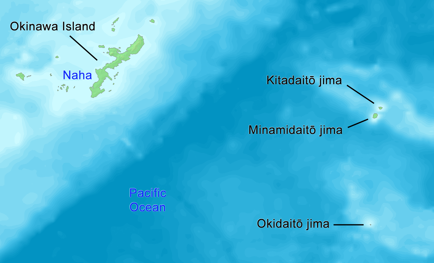 Map of Daito Islands (in English).